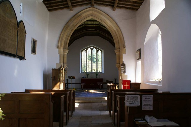 Church of England parish church of St Botolph, Wardley, Rutland: interior of nave, looking east towards the chancel